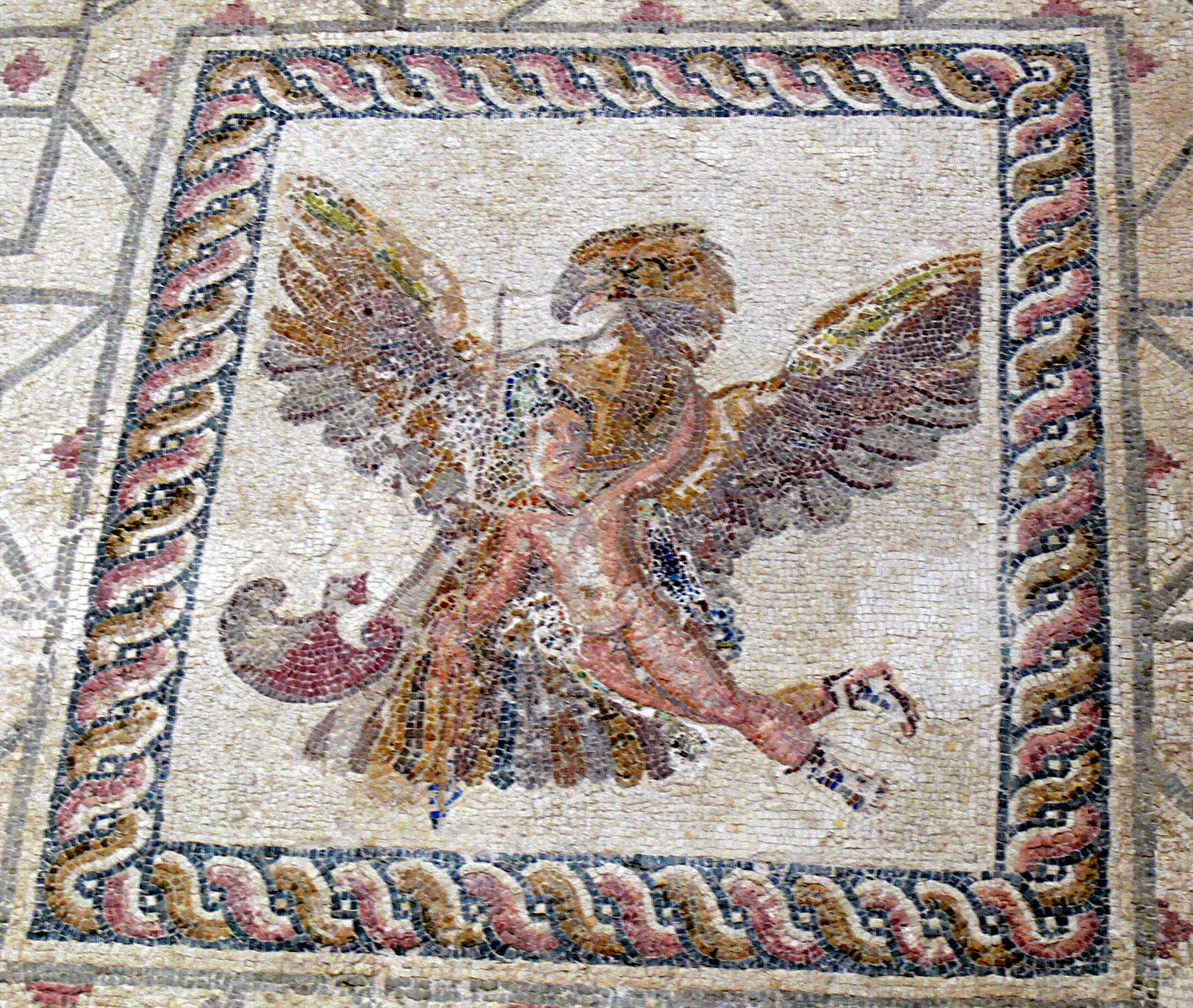 Paphos Archaeological Park. House of Dionysos: Zeus abducting Ganymede.